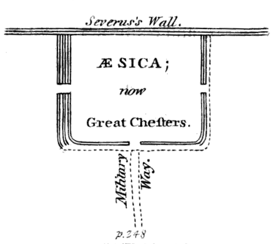 "AESICA; now Great Chesters". Engraving from page 248 of The History of the Roman Wall by William Hutton. Printed by John Nichols and Son, London, 1802.